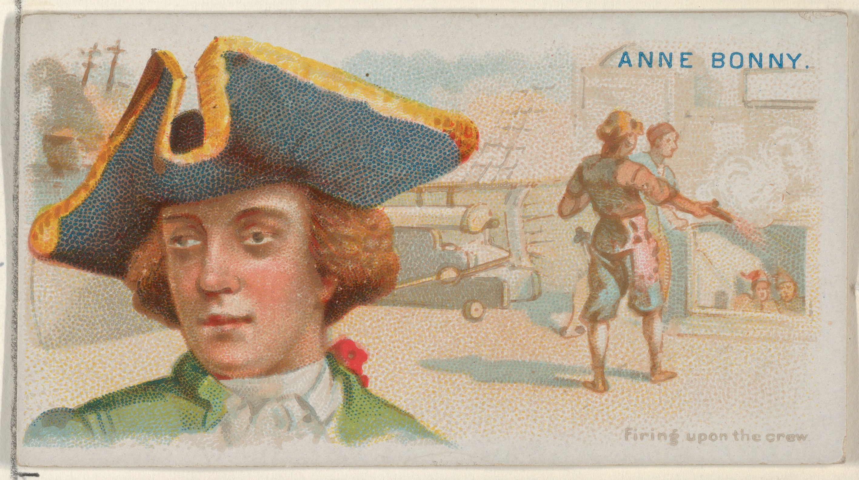 Print; Prints